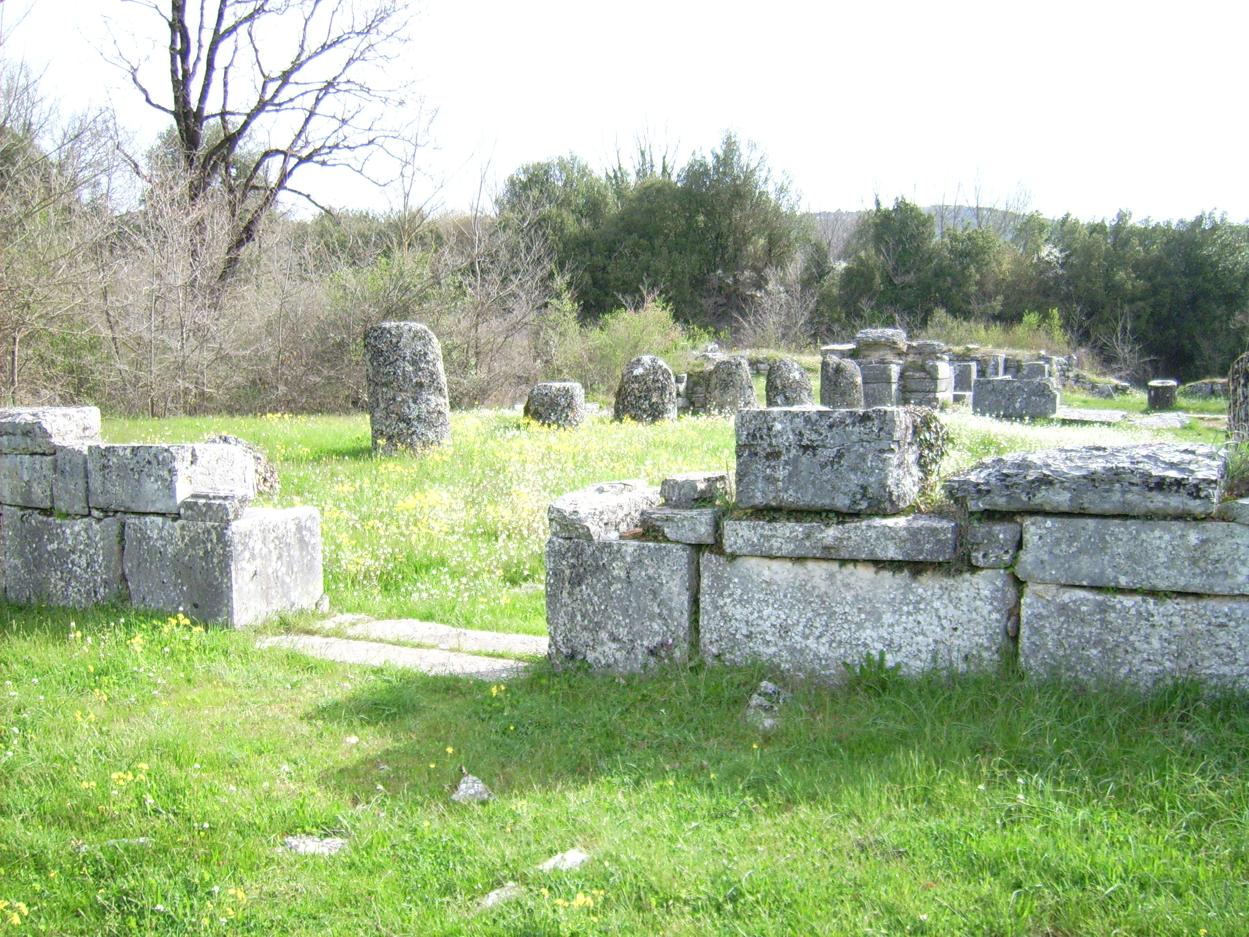 Oracle of Zeus at Dodona - exact discription follows nearby